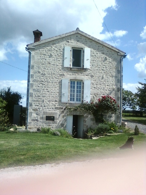 the land and the house of Viète in Foussais (Vendée), from which he was name "Sieur de la Bigotière".